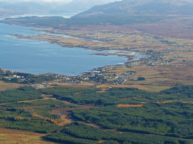 Broadford from Beinn na Caillich Looking down on Broadford Bay from around 500m up on the east side of the hill.